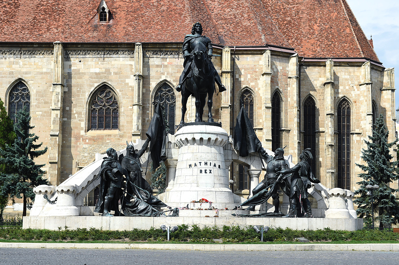 Mathias Rex 1443 -1490